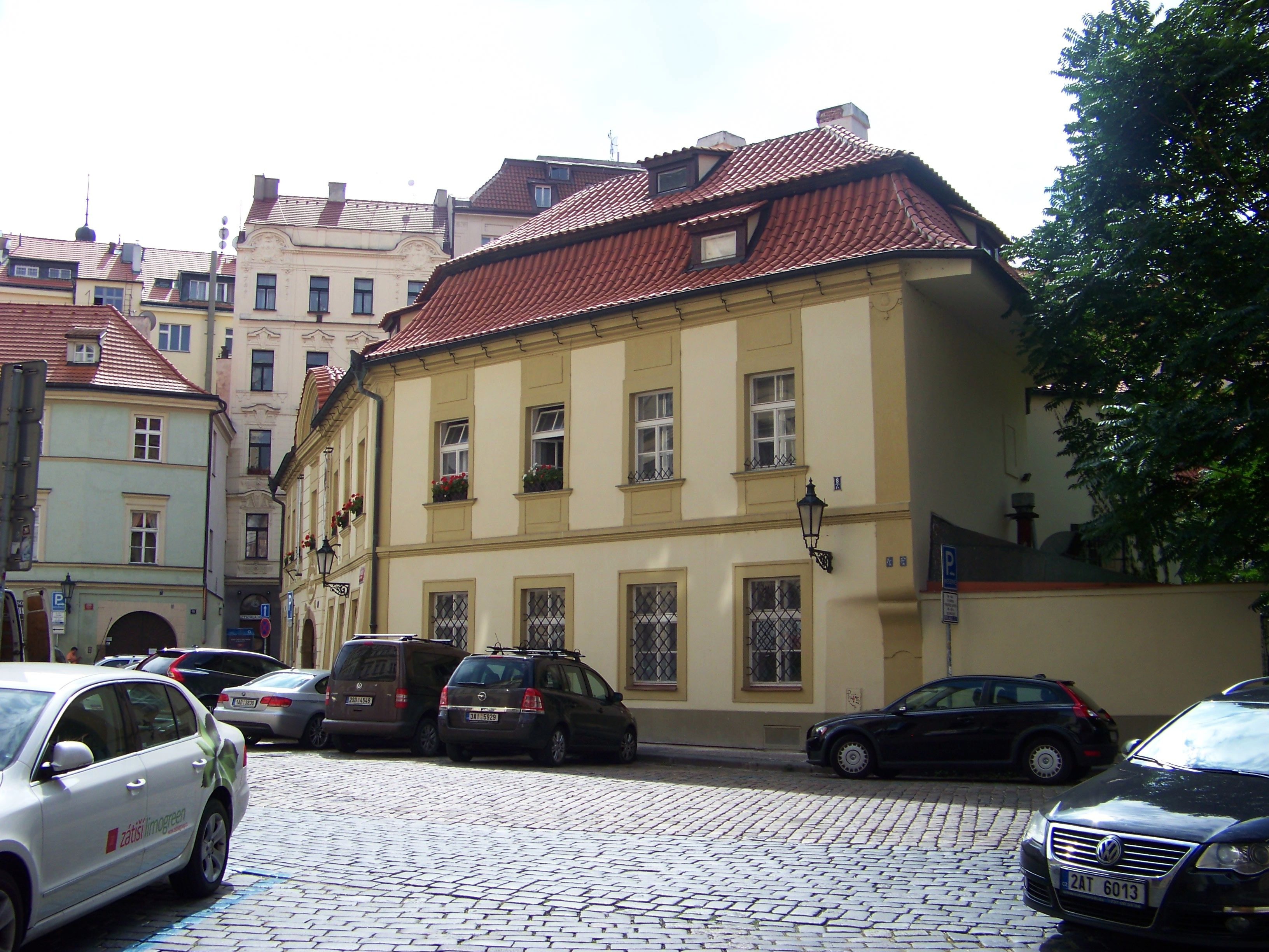 Prague-Old Town. U Halánků house.